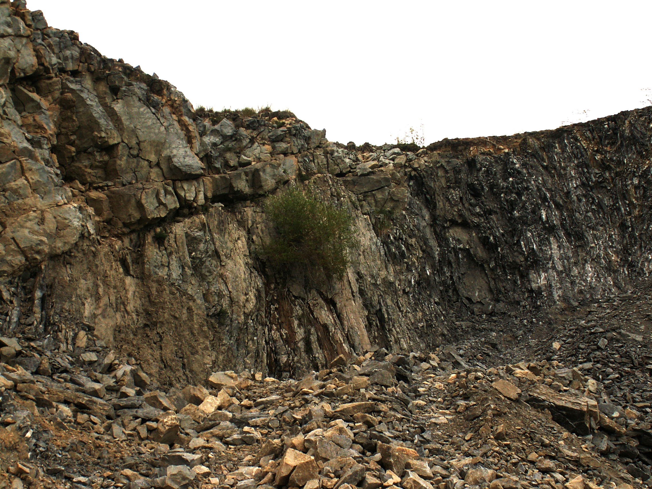 Angular unconformity. Transgression of the Eggenburgian (Aquitanian stage of the Miocene series) sediments of the Vienna basin on the upper Jurassic nodular (Pieniny) limestones of Pieniny Klippen Belt. Podbranč, Western Carpathians, Western Slovakia.